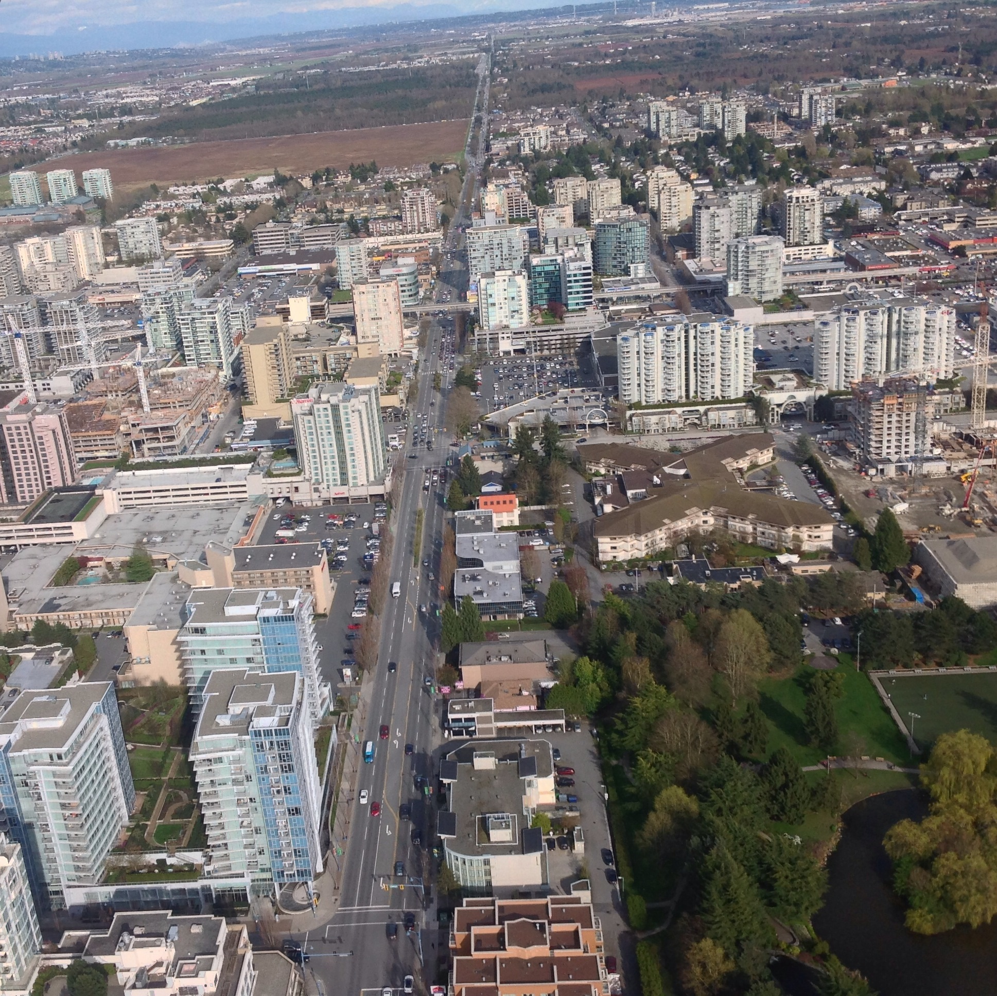 East-facing aerial view of Westminster Highway and Canada Line overpass to Brighouse Station in Richmond, BC